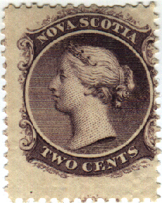 Nova Scotia stamp issue 1863 (new currency) with the head of Queen Victoria